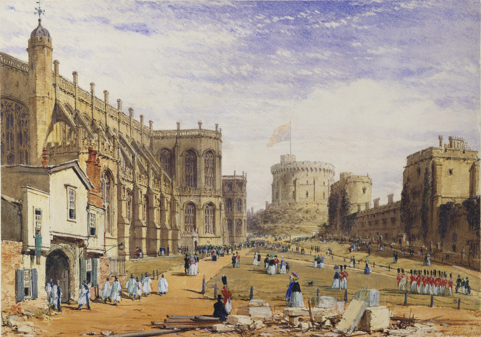 The lower ward (bailey) of Windsor Castle, England.